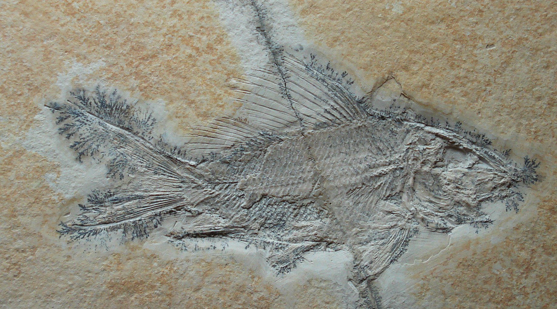 fossil of histionotus